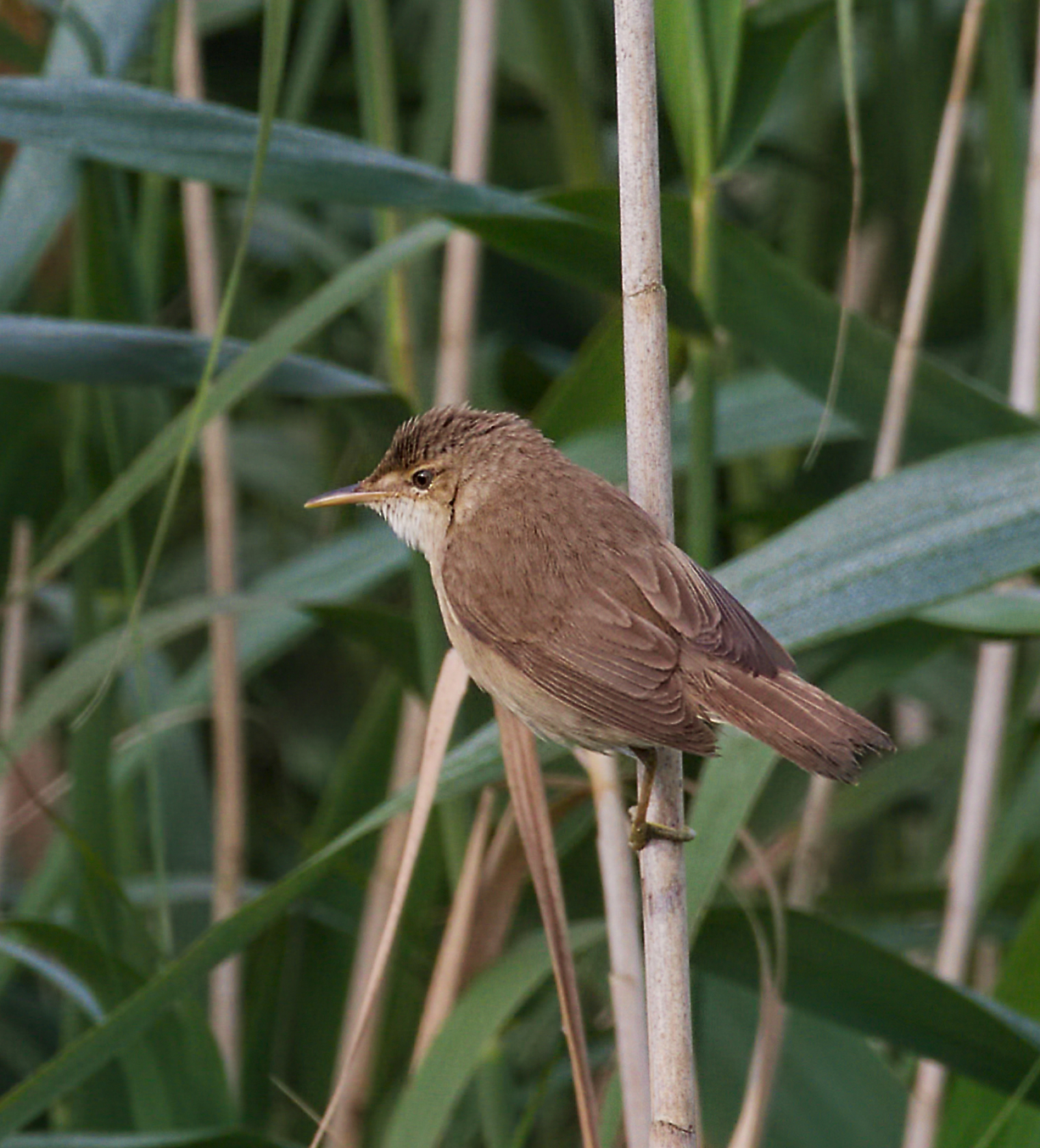 Eurasian reed warbler - Acrocephalus scirpaceus. Taken by the Westensee in Felde, Schleswig-Holstein, Germany.